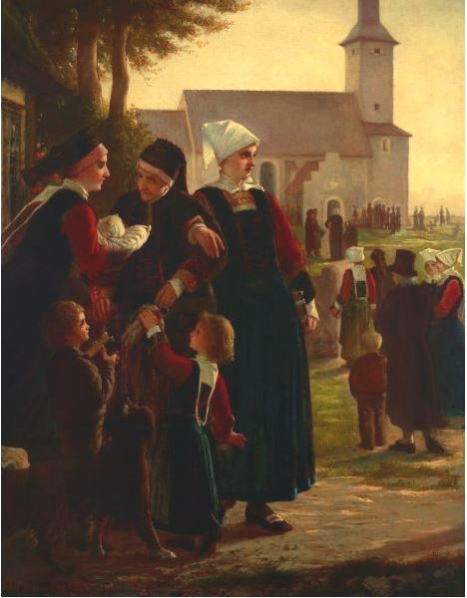 Ostenfelder Church, Sunrise